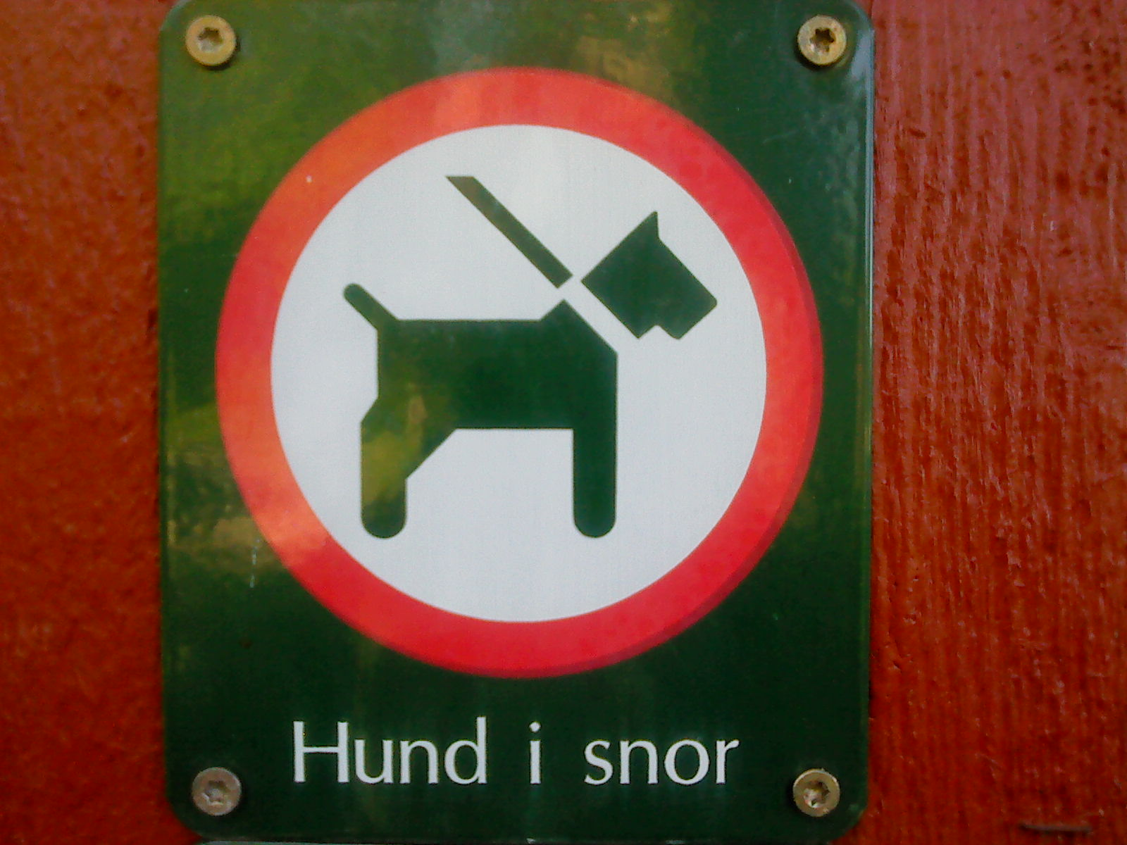 Danish sign saying "Hund i snor" ("Keep dog on leash"). The sign is somewhat comical to Swedes, because if read in Swedish it says "Dog in snot".